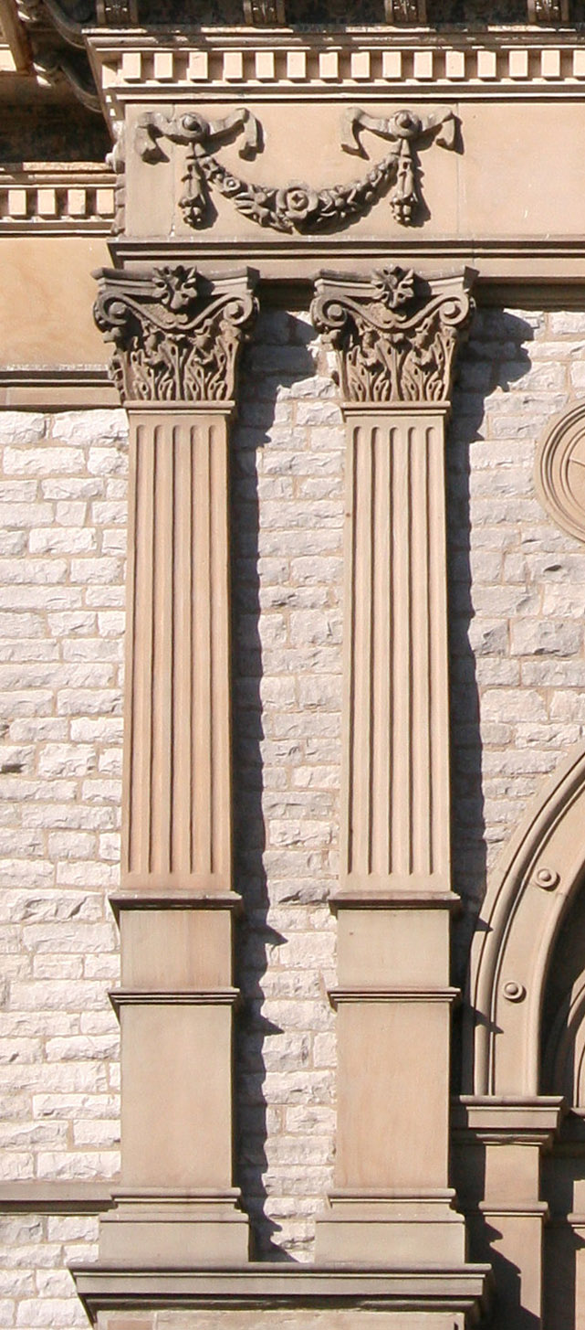 Pilasters on the county courthouse in Sidney, Ohio. Photo shot by Derek Jensen (Tysto), 2005-October-30